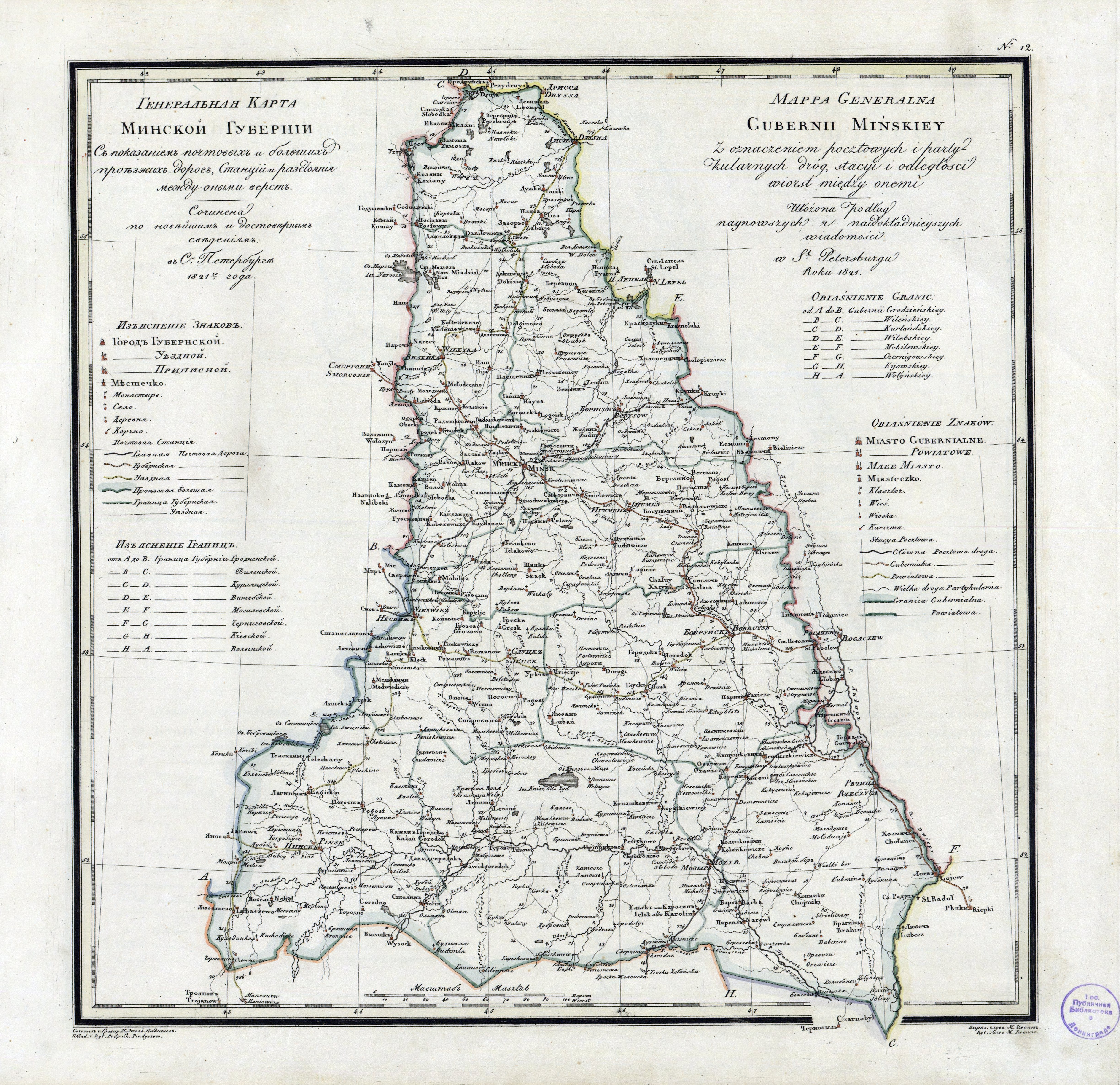 Minsk governorate